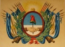 Coats of arms of Argentina